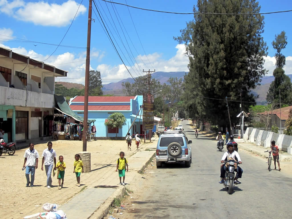 Aileu town, East Timor